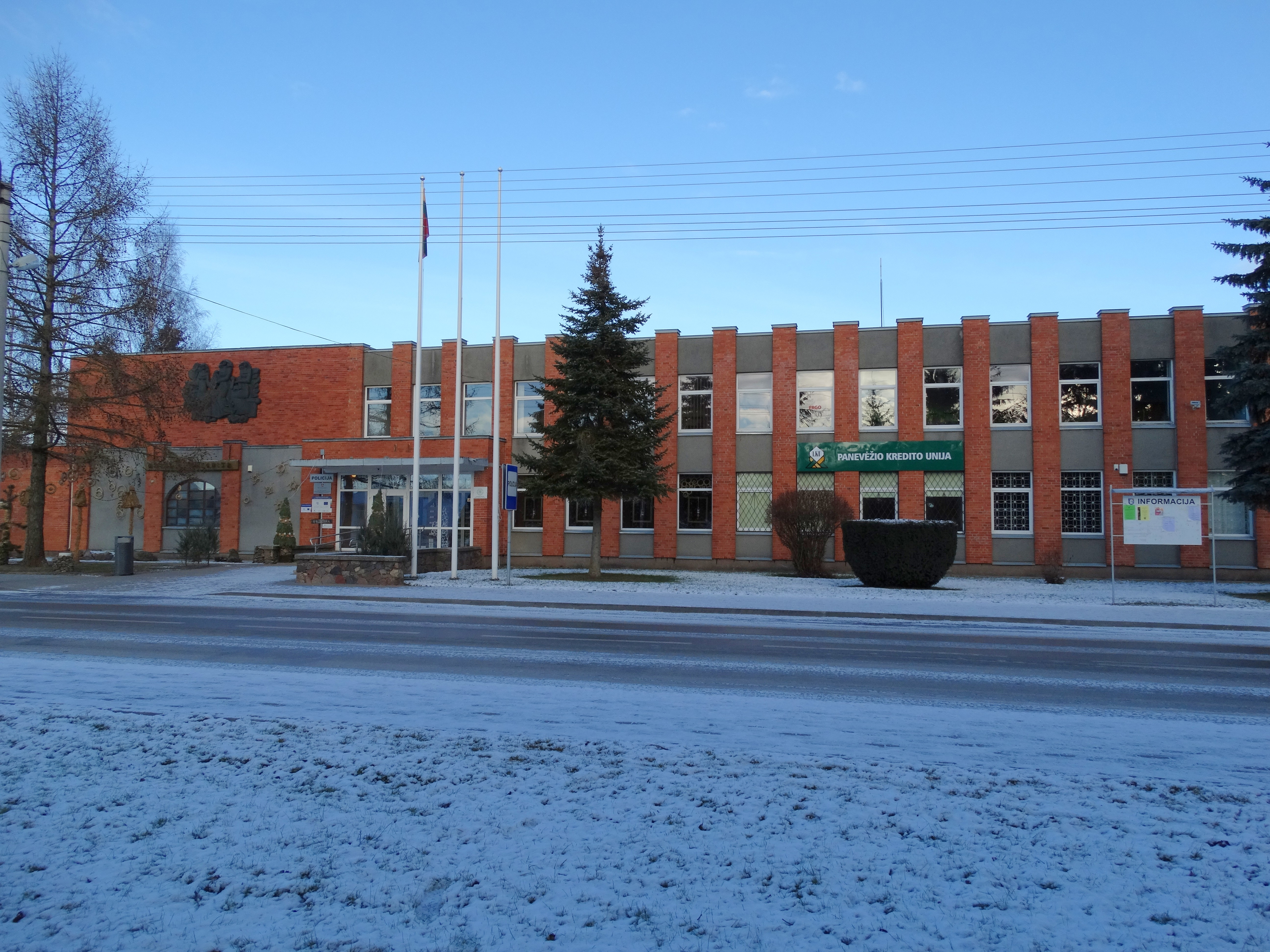 Eldership, Naujamiestis, Panevėžys District, Lithuania